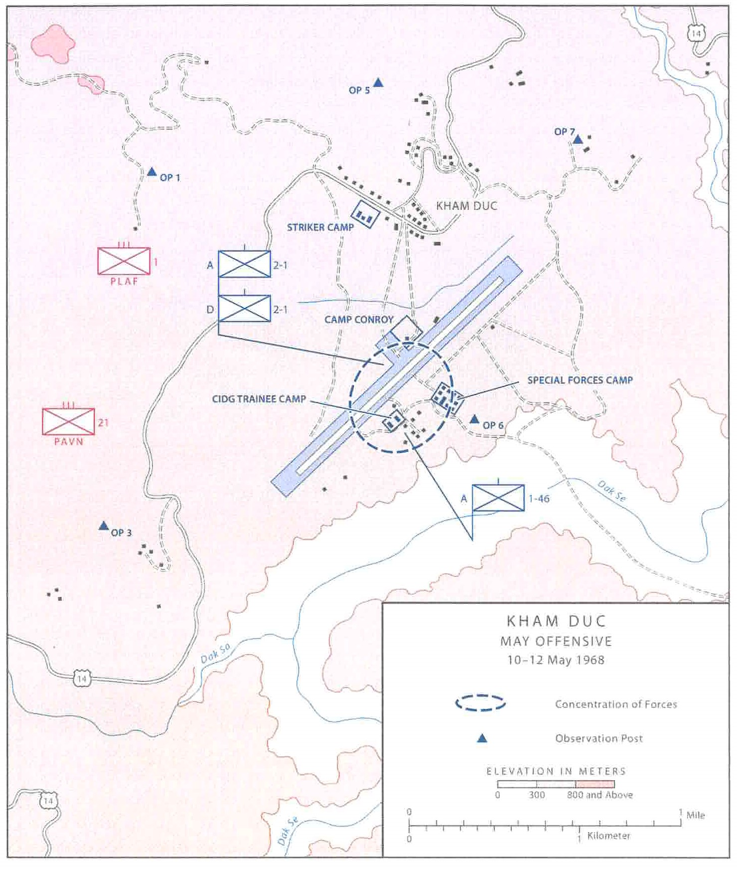 Battle of Kham Duc, 10-12 May 1968